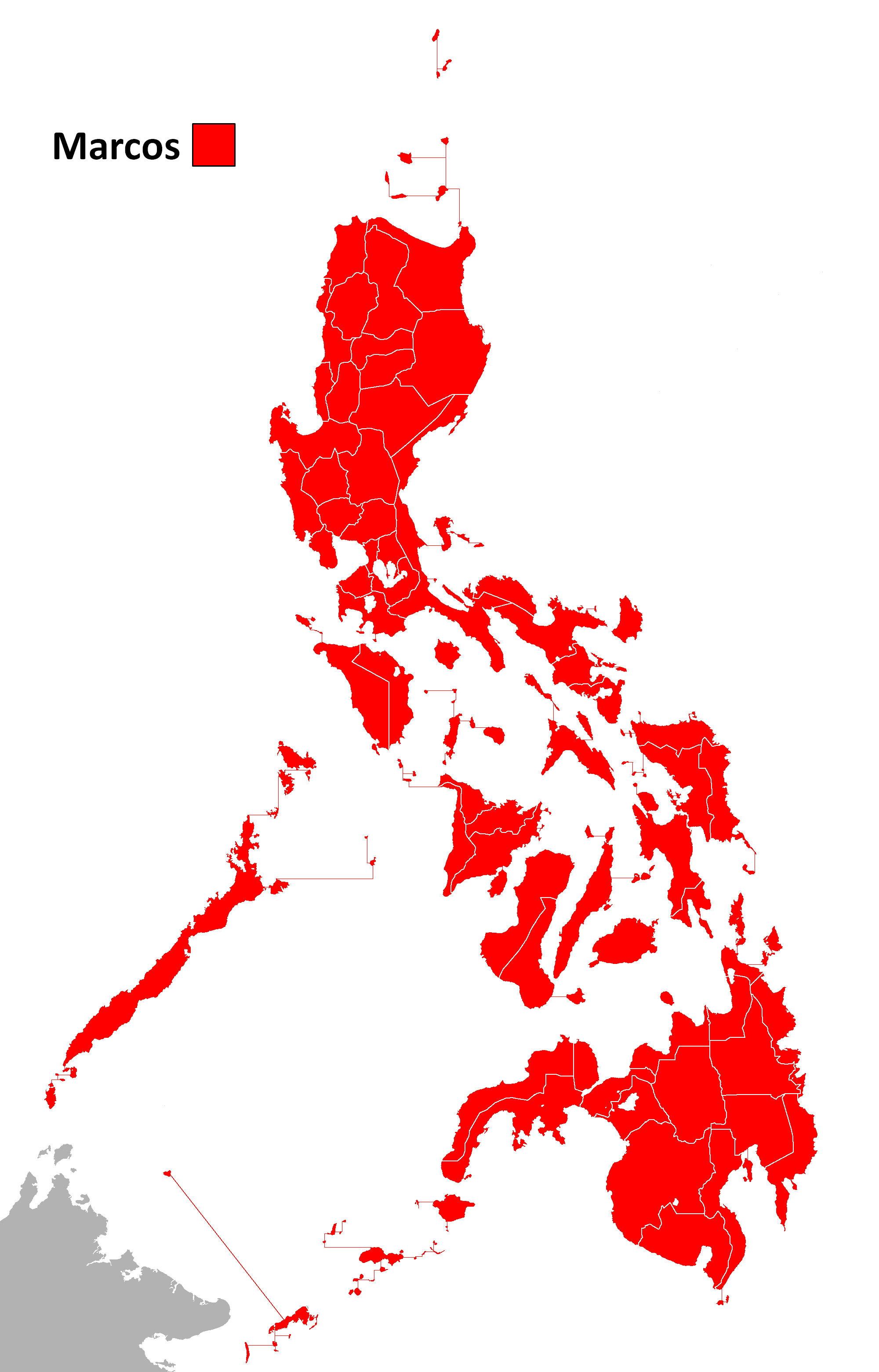 Result of the Philippine presidential election, 1981 per province.